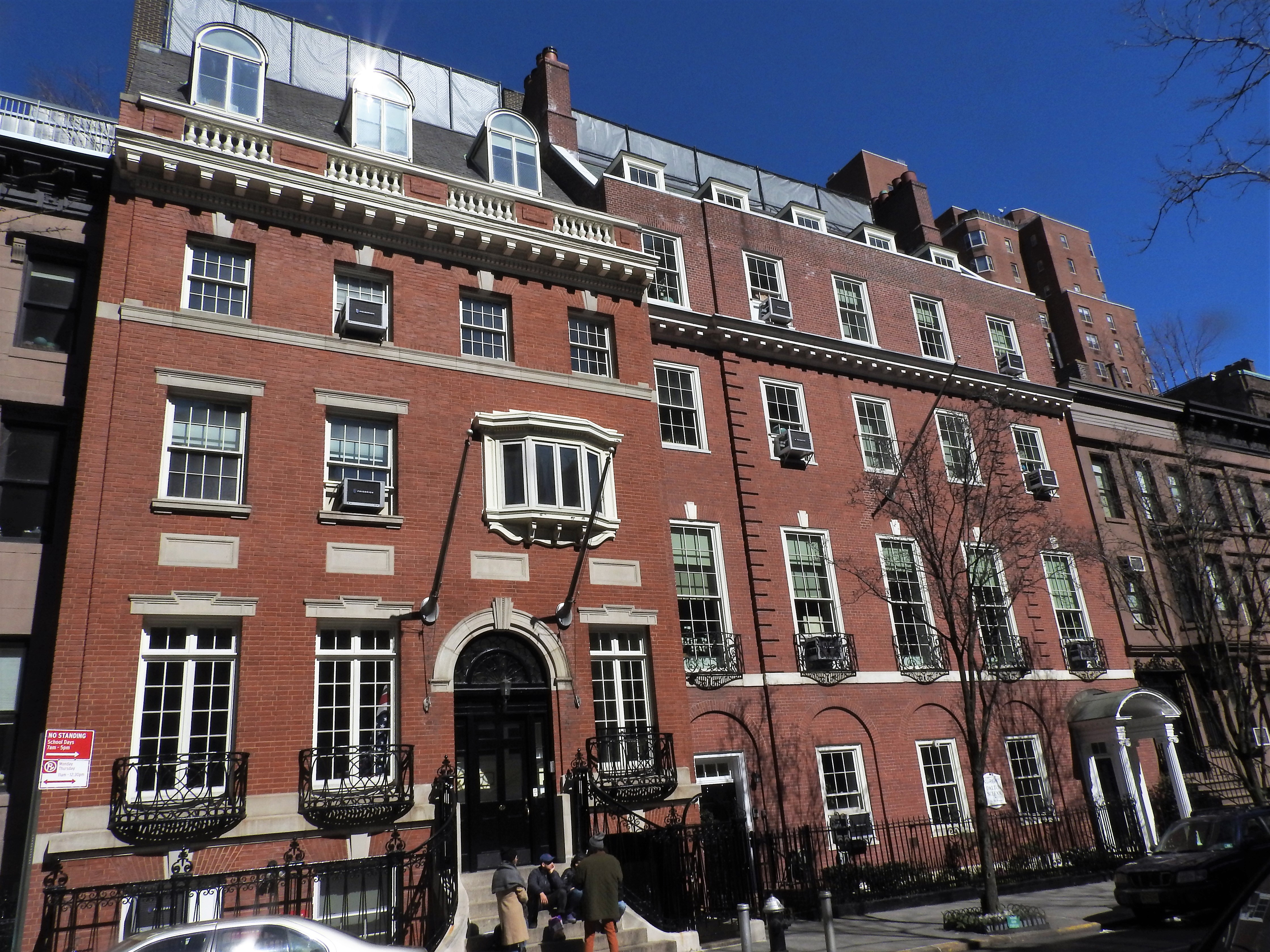 Looking northeast at Dalton School on a sunny midday